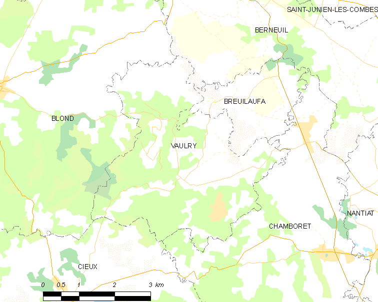 Map of French municipality Vaulry